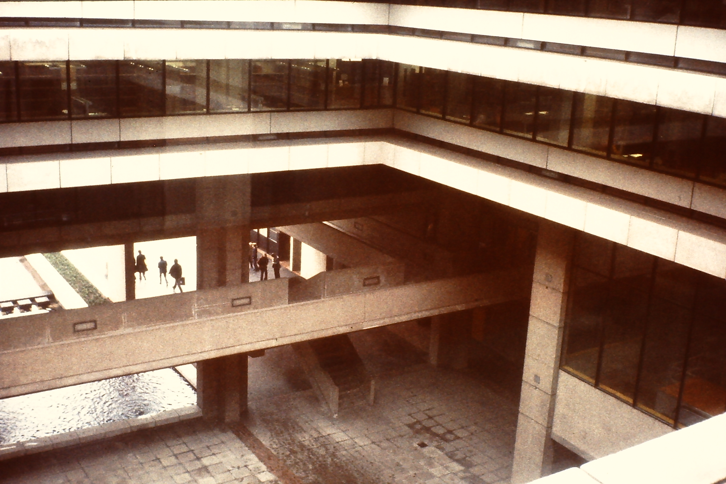 The central courtyard of Birmingham Central Library circa 1975.